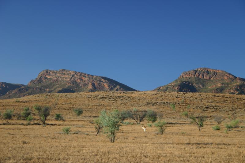 Flinders Rangers, with a Kangaroo